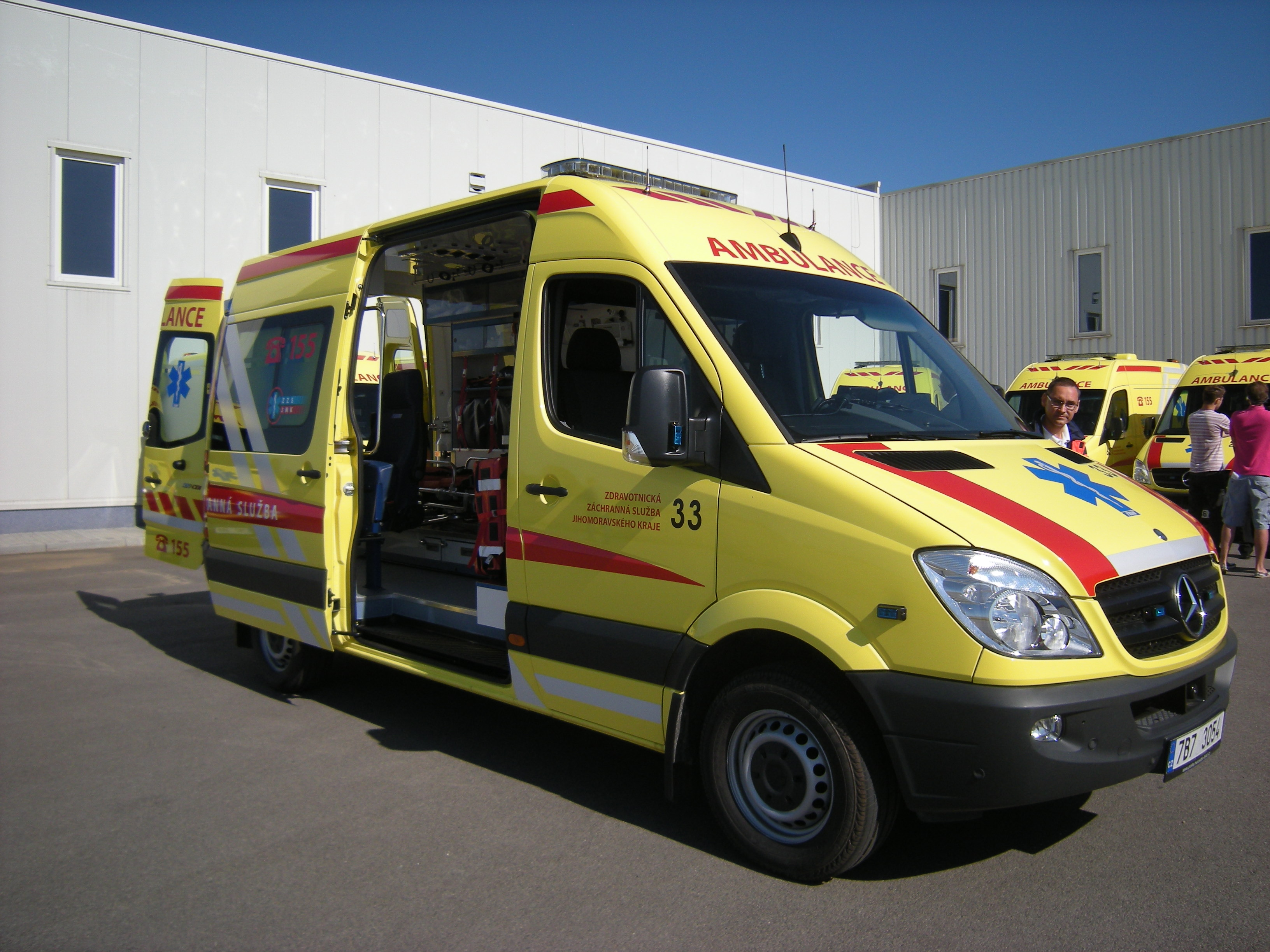 New ambulance vehicles Mercedes-Benz Sprinter of the Emergency Medical Service of South Moravian Region, Brno, South Moravian Region, Czech Republic Česky: Nová sanitní vozidla Mercedes-Benz Sprinter Zdravotnické záchranné služby Jihomoravského kraje při slavnostním předávání na stanici letecké záchranné služby Kryštof 04